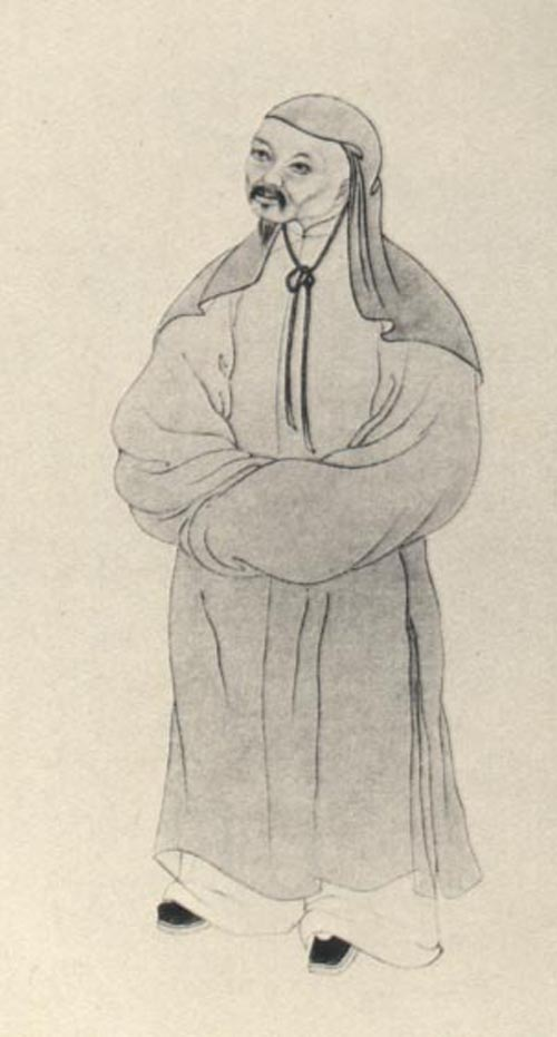 LI Jian, scholar of the Qing Dynasty.